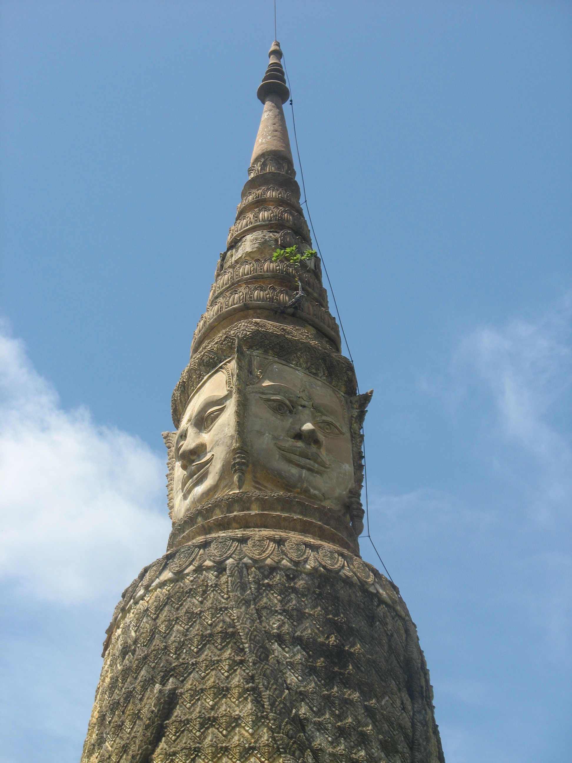 Faces of Oudong